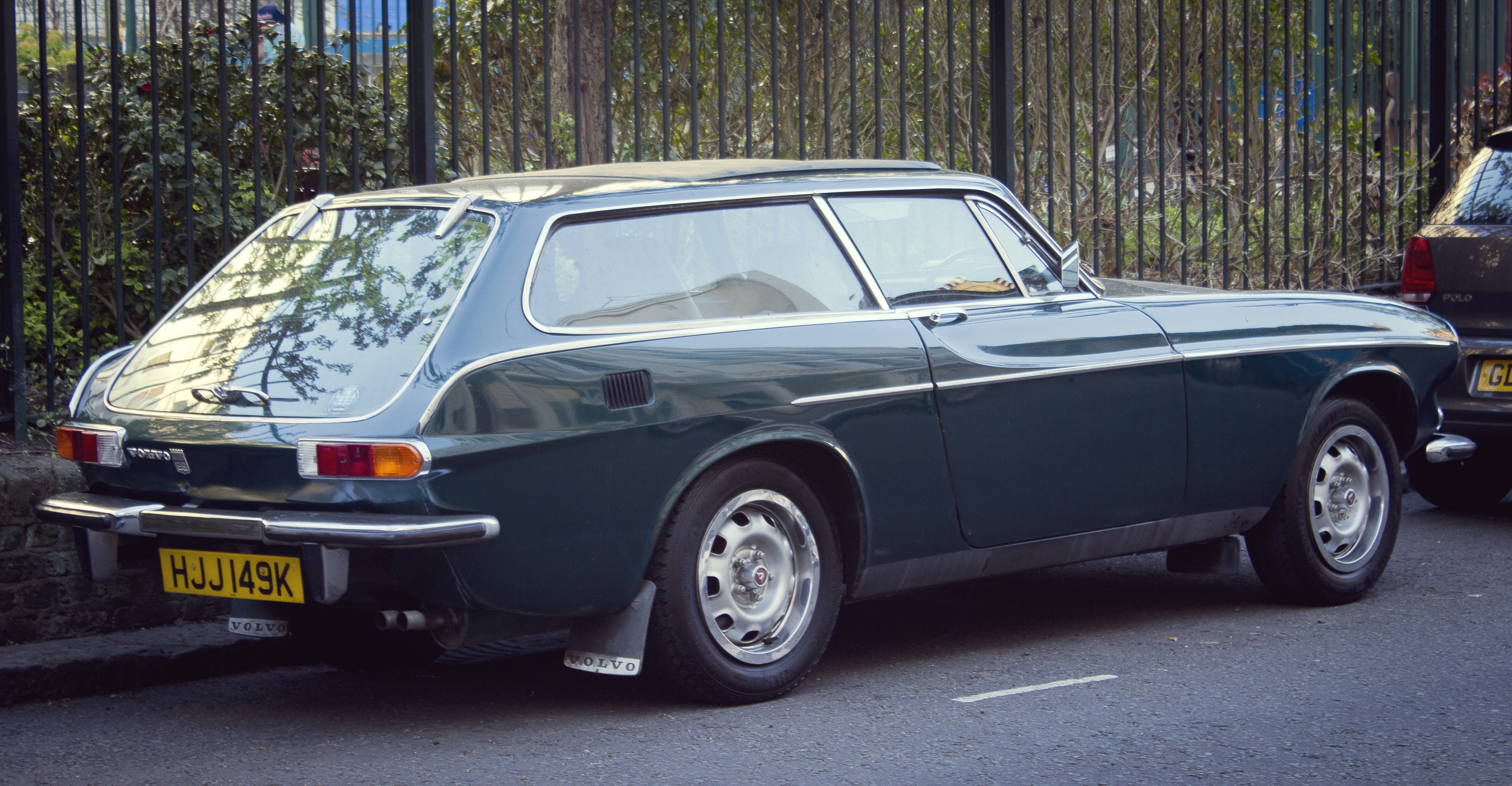 I gotta say I'm a total fan of the shooting-brake concept. It's a shame it's not common anymore. I'm glad though, there's something like the Ferrari FF nowadays that kind of revives the concept.